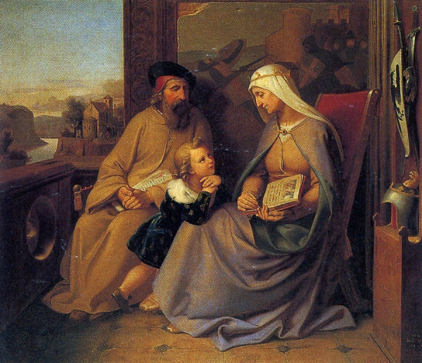 Saint Wenceslaus Being Taught at Tetin